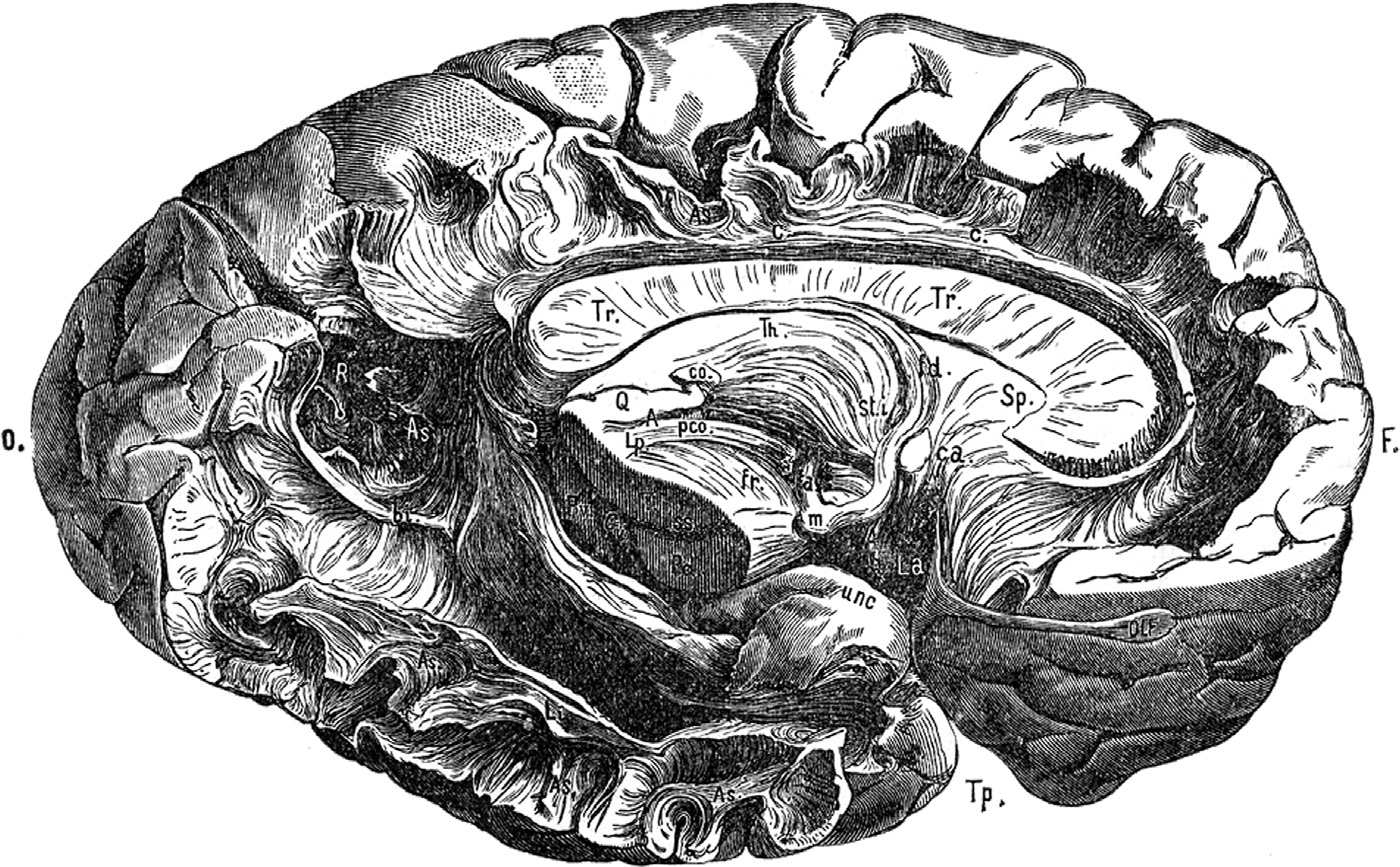 Fibers in his gross dissection of the medial surface the human brain.